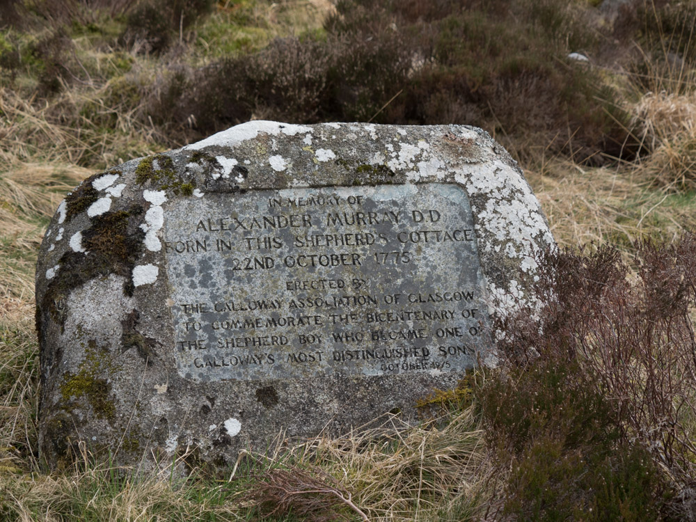 Plaque by Alexander Murray's birthplace